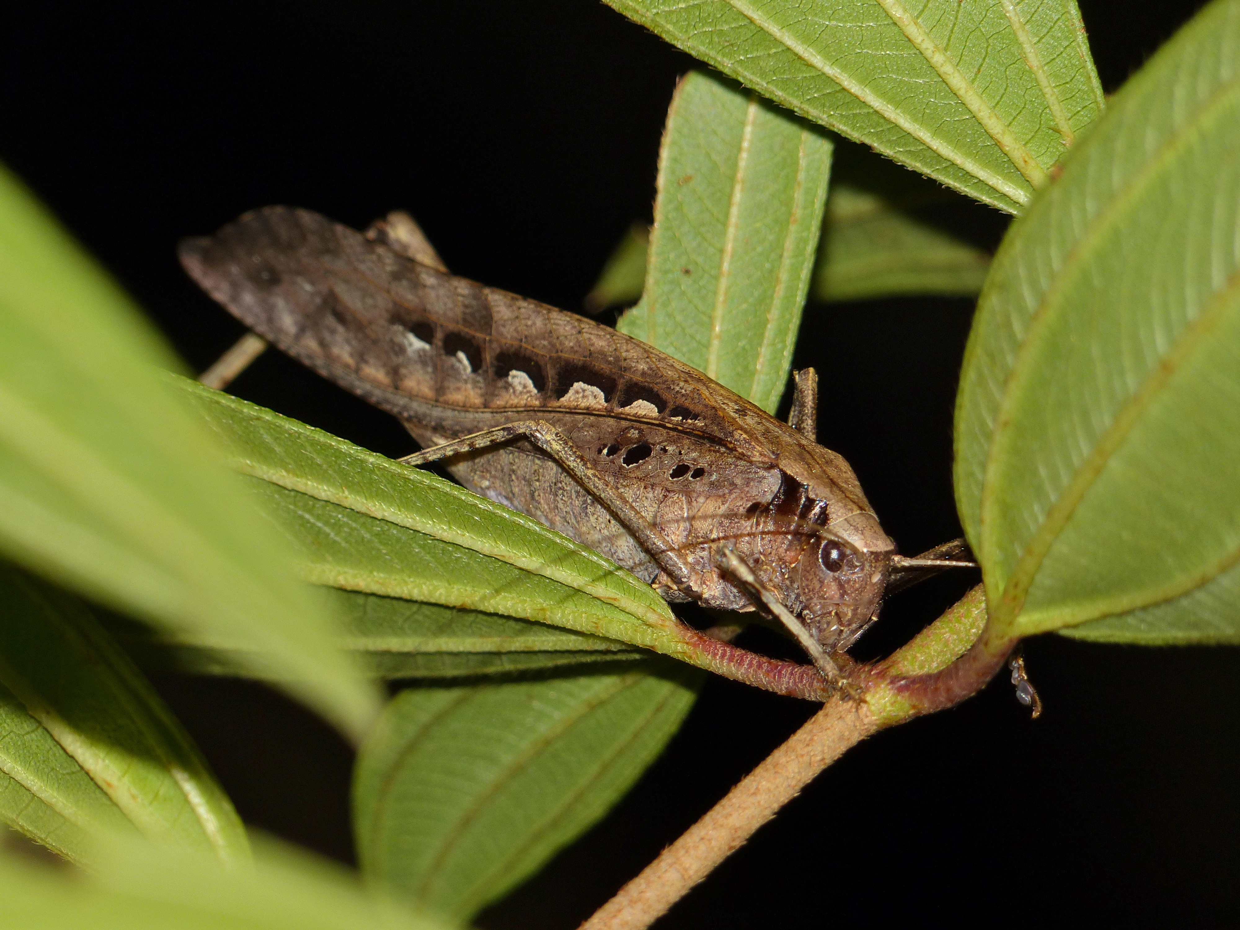 Permai Rainforest Resort, Santubong Peninsula North of Kuching, Sarawak, MALAYSIA